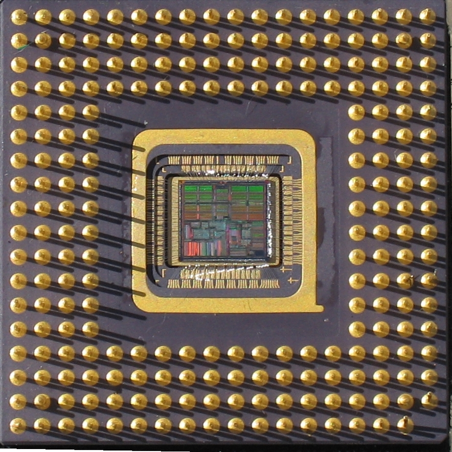 Die photo of QED RM5320 microprocessor